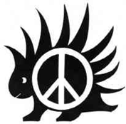 Designed by L.K. Samuels, the PorcuPeace symbol combines the twin principles of self-defense and non-aggression. Mostly nocturnal, the porcupine is not aggressive, but will defend itself if attacked. Some consider the porcupine as the “libertarian mascot.”